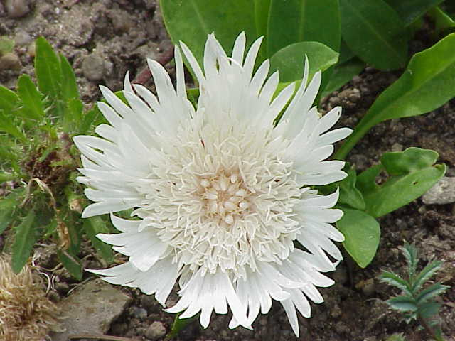 Species: Stokesia laevis Family: Compositae Image No. 1